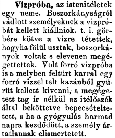 Dictionary entry 'ordeal'